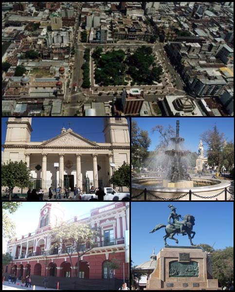 Image montage of Santiago del Estero City, Argentina